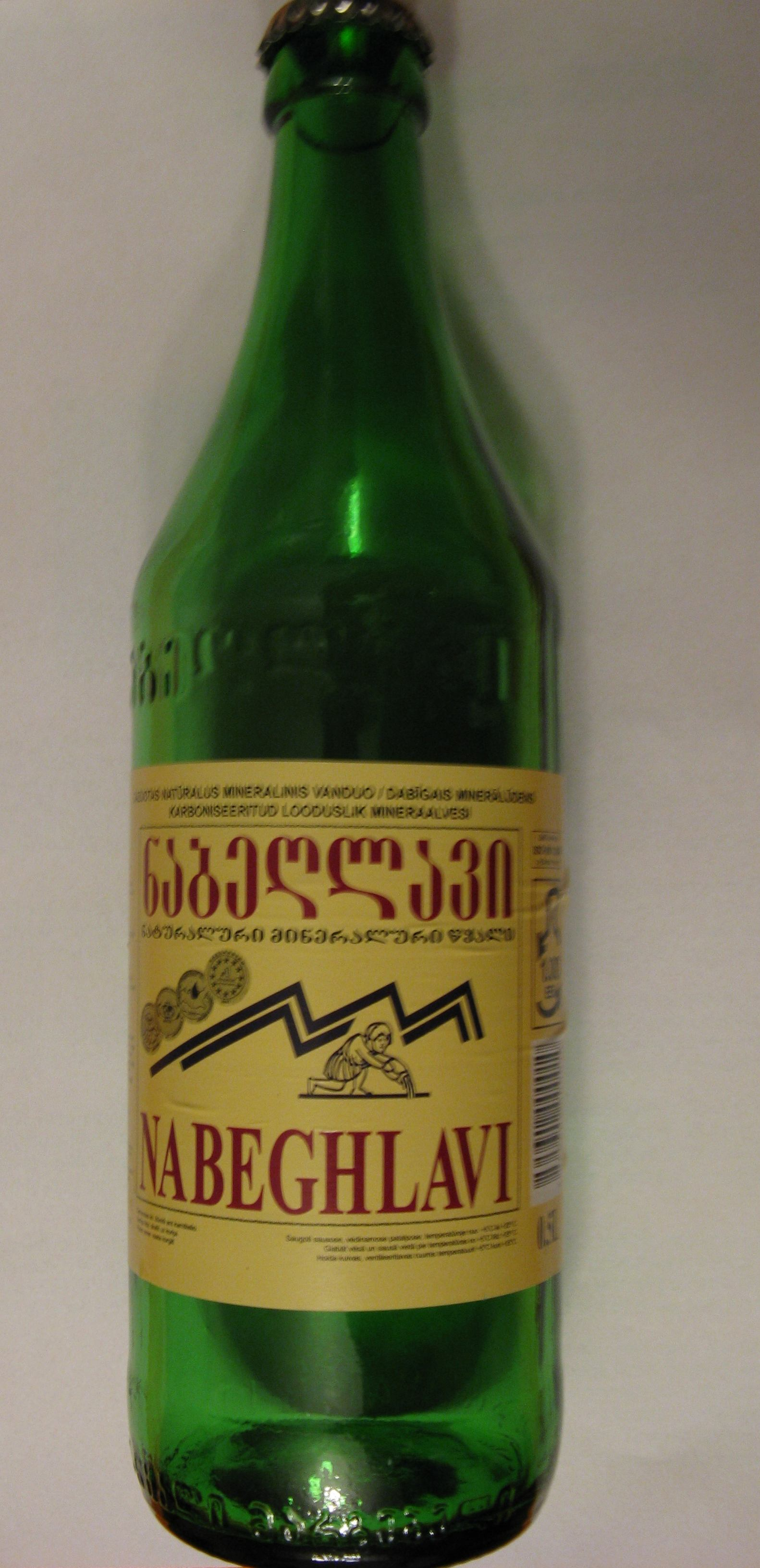 Nabeghlavi mineral water bottle